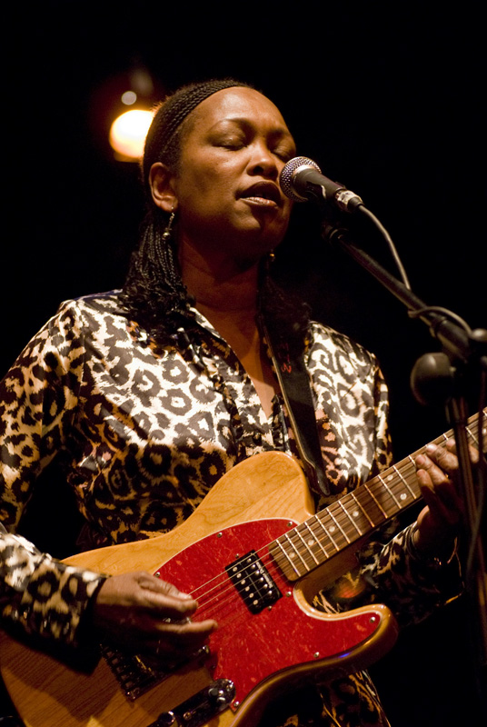 Deborah Coleman, an American blues guitarist, songwriter and vocalist, in concert in Albéitar.